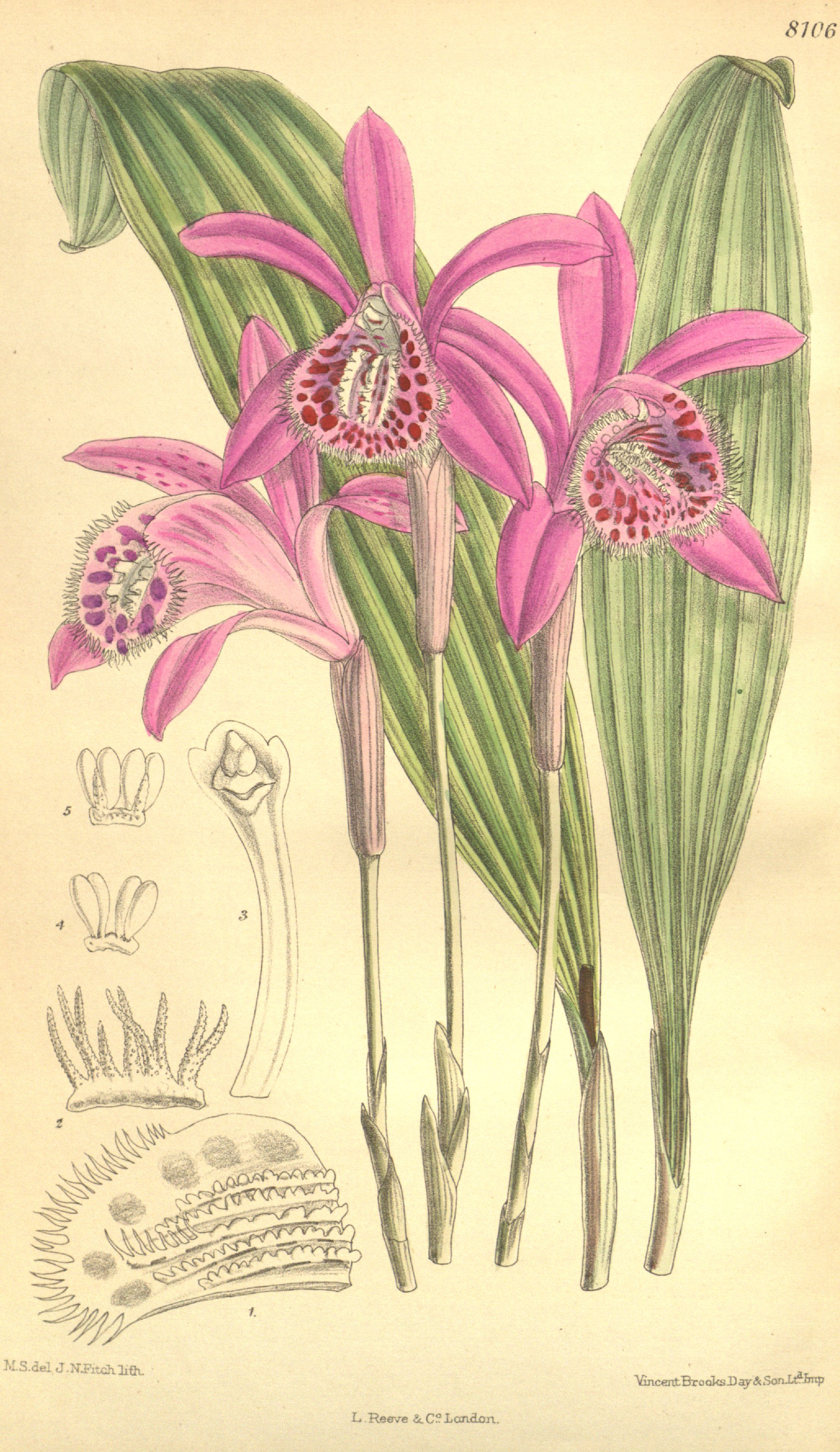 Illustration of Pleione yunnanensis